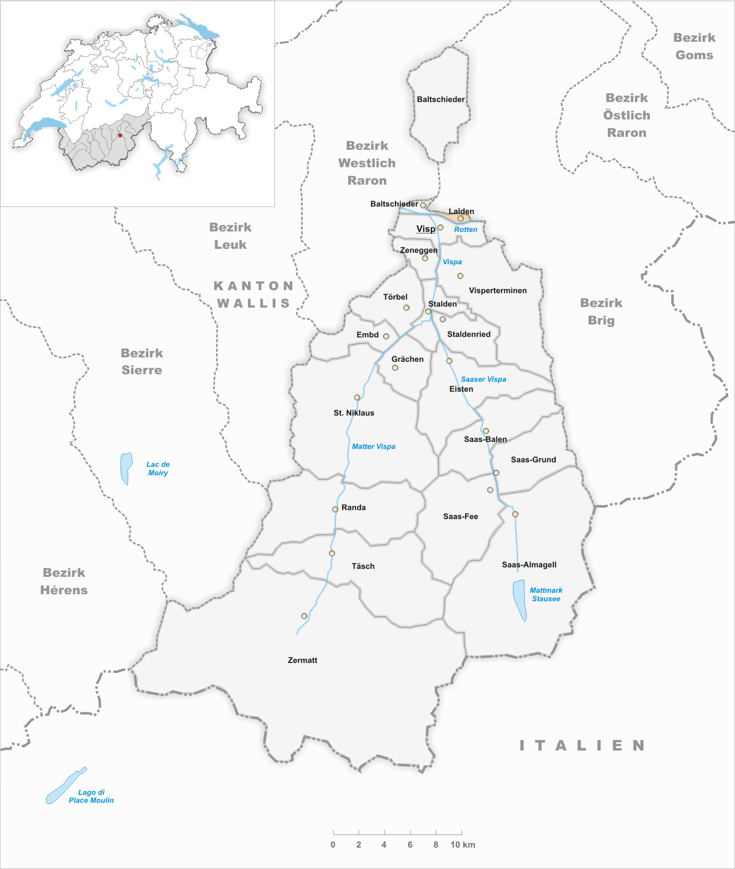 Municipality Lalden